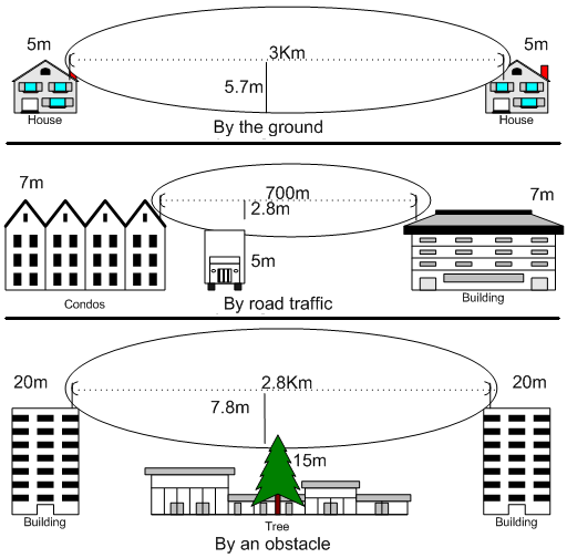 This drawing shows how the Fresnel zone can be disrupted by the ground, road traffic and an obstacle like a tree. The drawing was created using visio 2000 SP2 and saved as a .png file. The image was based on this image where there were commercial company names and the licensing status was unknown. Twibright Labs is not a commercial company name. The licensing status is GFDL